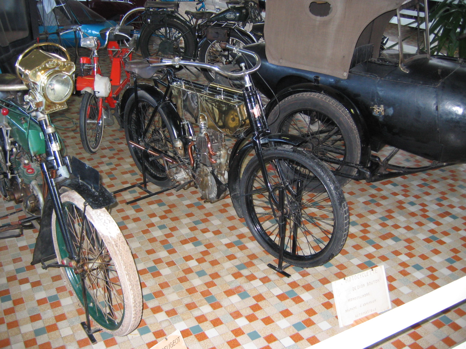 De Dion-Bouton french motorcycle. About 1900. Picture : Gérard Delafond